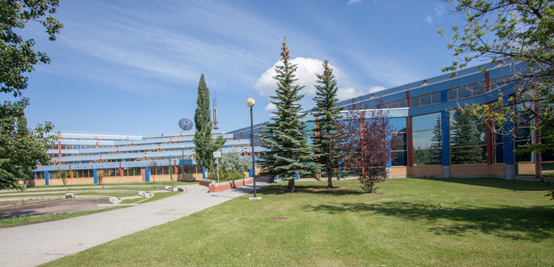 A picture of Pearson